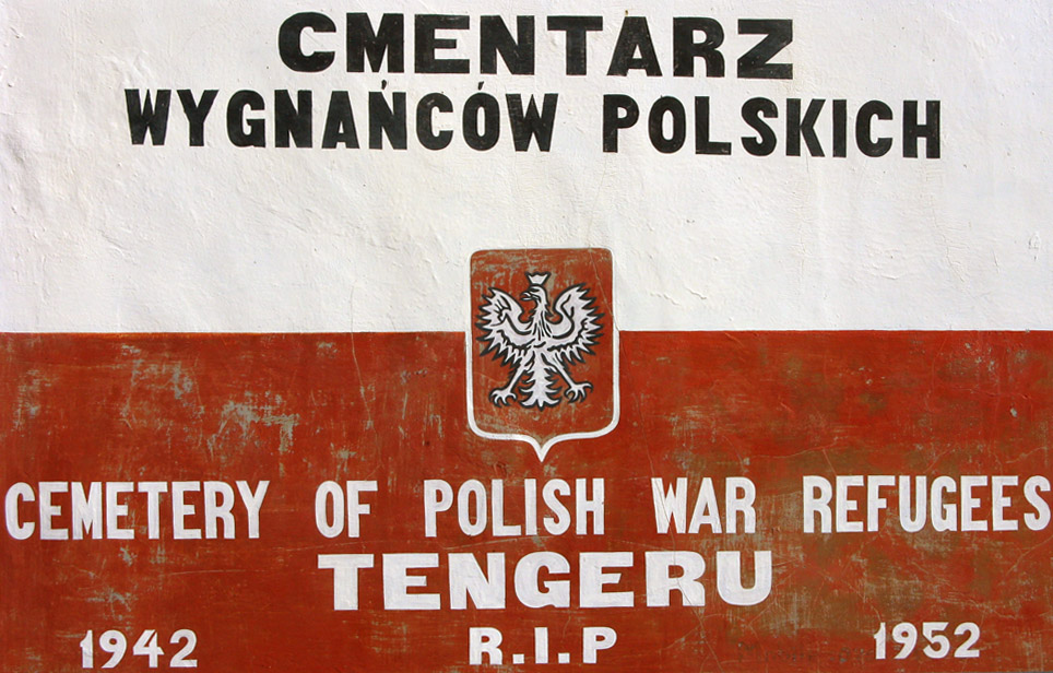 Sign of Polish cemetery in Tengeru, Tanzania